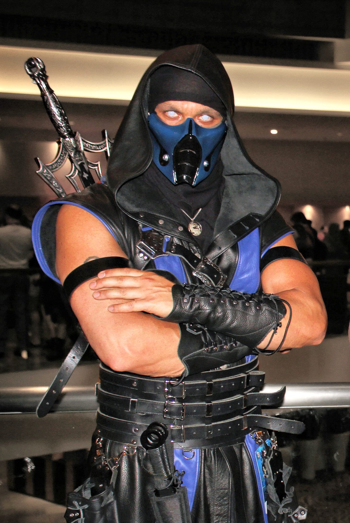 Dan "Danquish" Sarkar cosplaying as Sub-Zero (from Mortal Kombat) at Dragon*Con 2013.